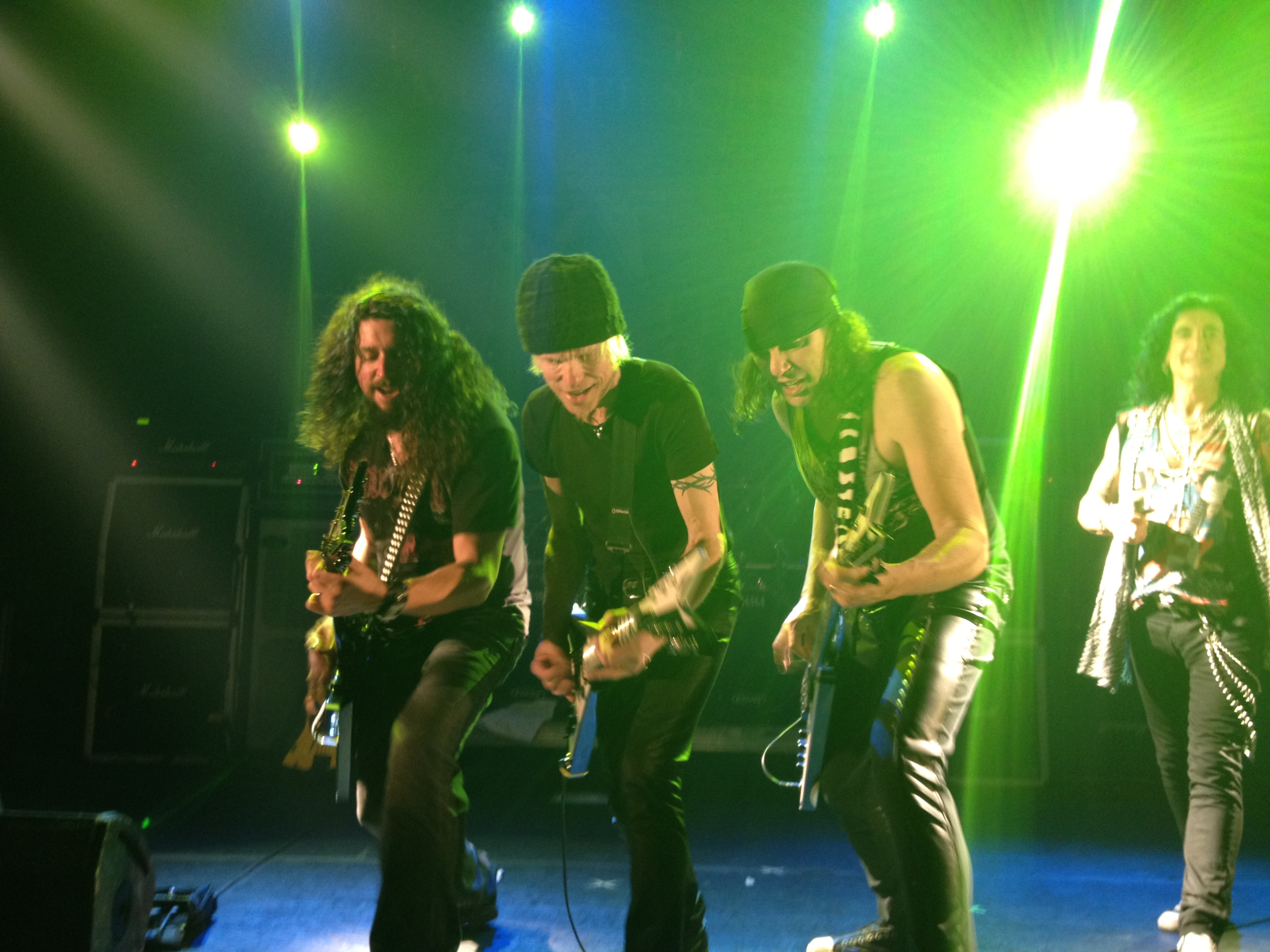 Michael Schenker Group performing live at the Gramercy Theater in NYC on March 9th, 2012